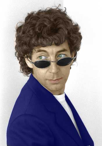 Official promo picture, tinted by WebHamster